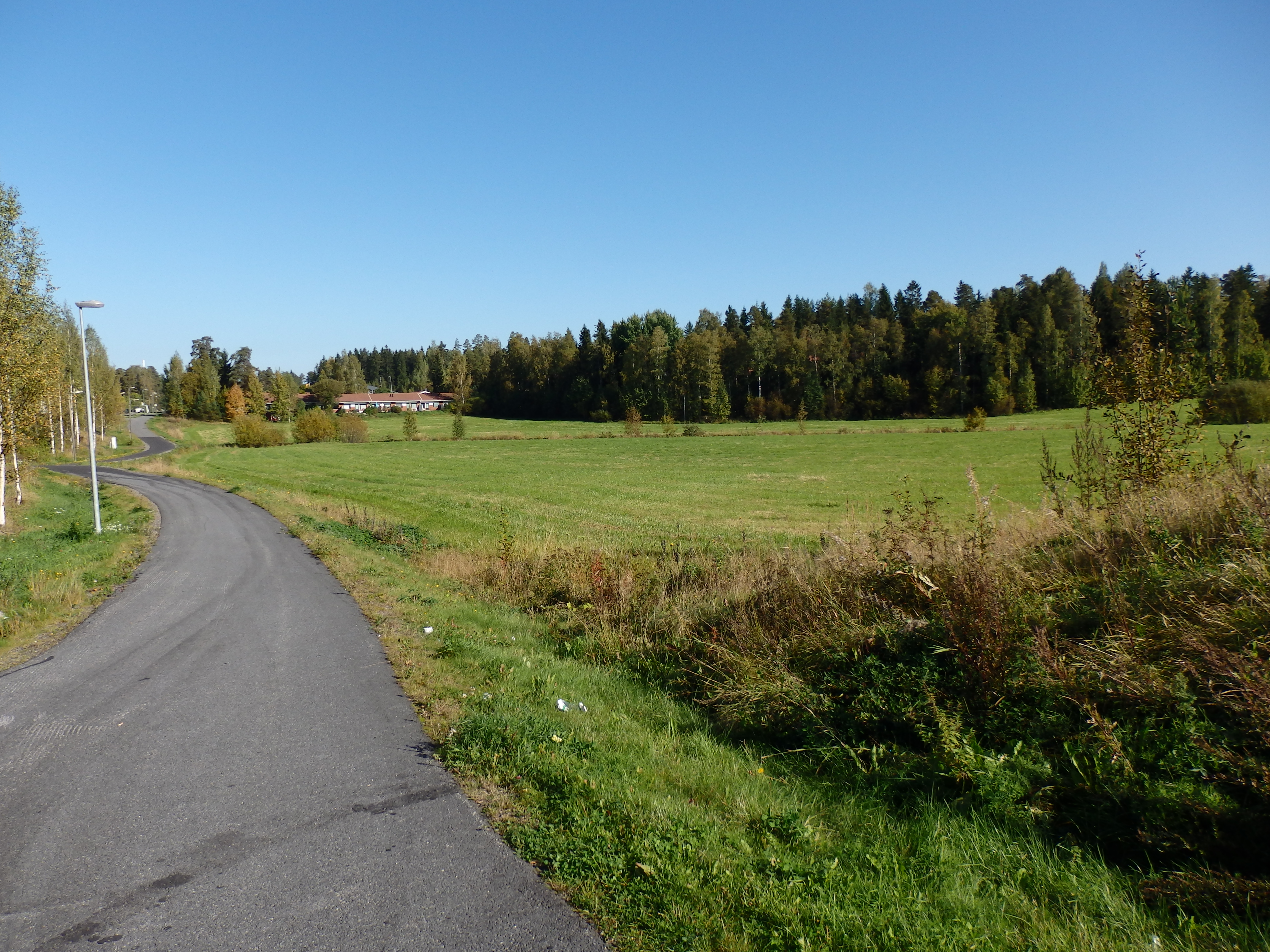 Pirkkala / Takamaa village. View to houses and field from road.